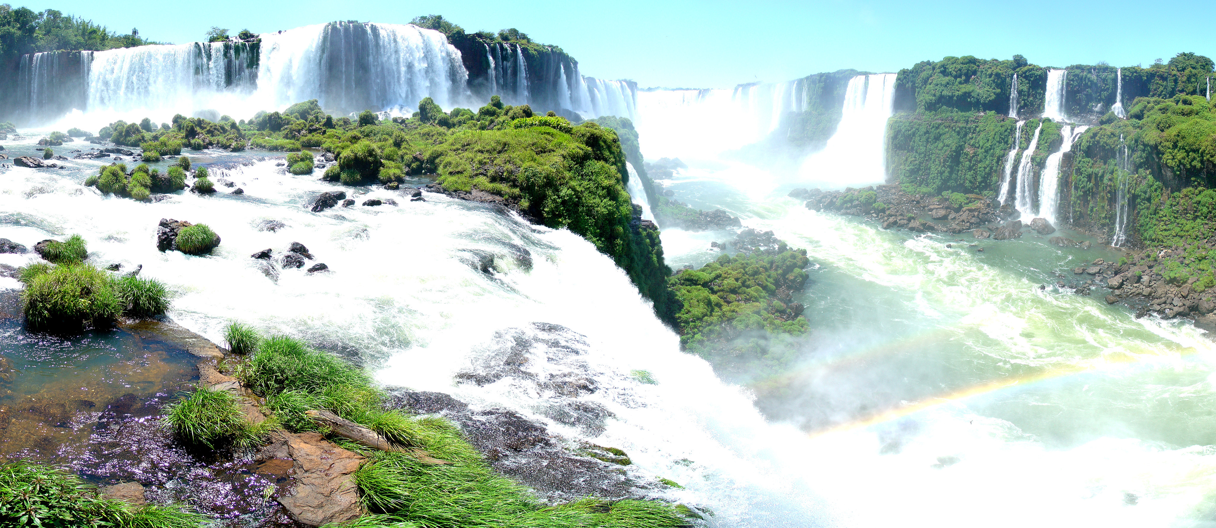 Please, have this description accessible to all by translating it in different languages. Panorama of Iguazu Waterfalls